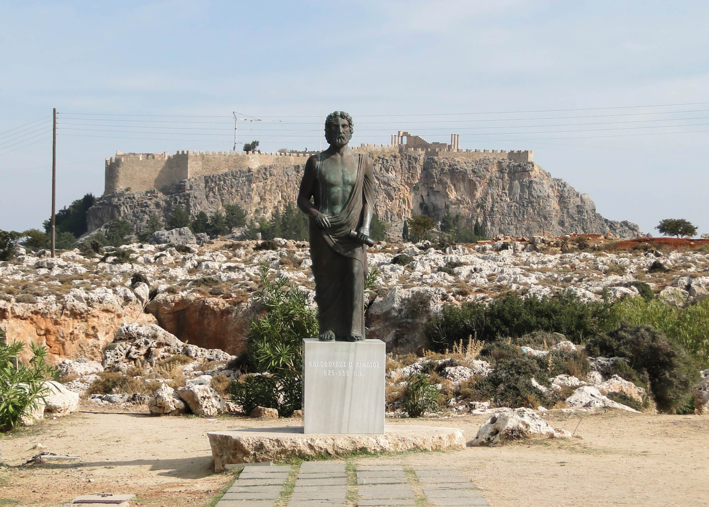 Statue of Cleobulus of Lindos with the Acropolis of Lindos in background, Rhodes, Greece